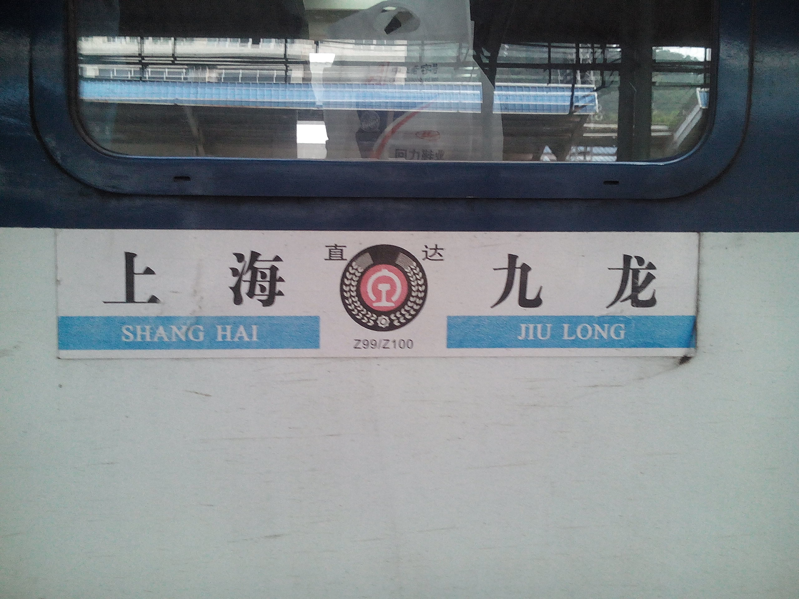 Information board of SH-KL through Train